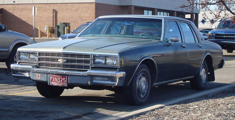 1981-85 Chevrolet Impala sedan photographed in Lansing, Michigan.